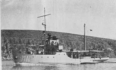 Malinska-class mining tender of the Royal Yugoslav Navy